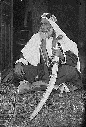 Cropped photo of Sheikh Freih Abu-Middein, chief of the the Hanajira tribe, in Beersheba